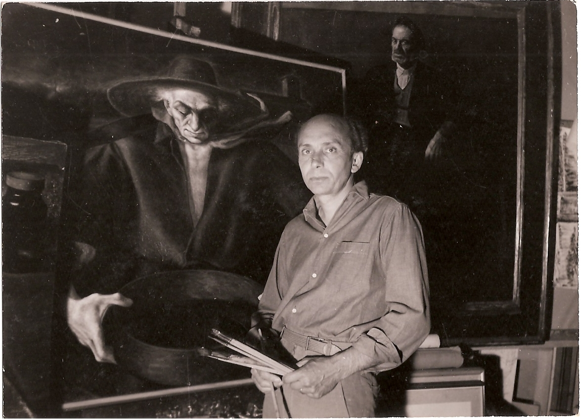 Giovanni Acci and his works